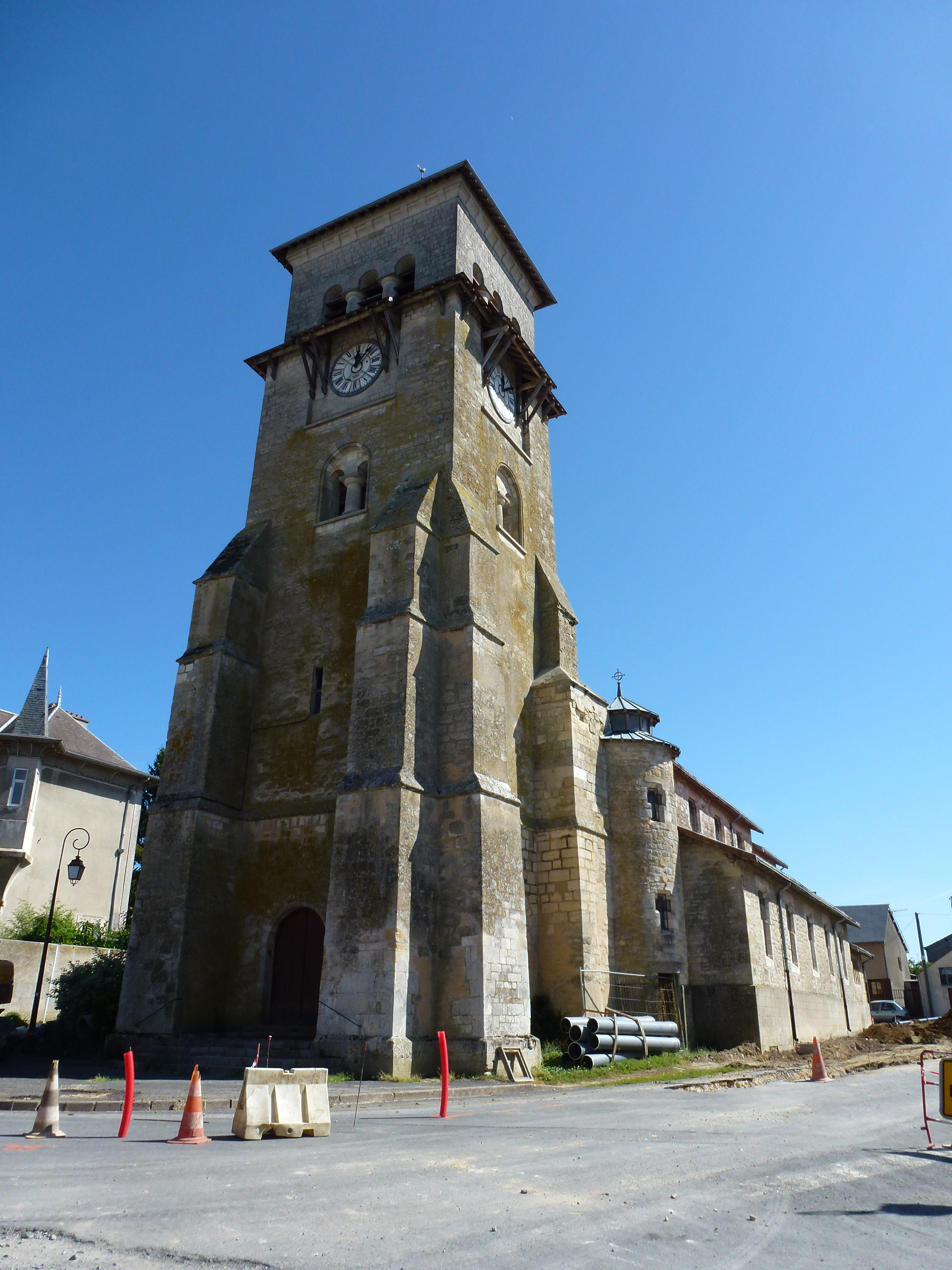 Saulces-Monclin (Ardennes) église, tour